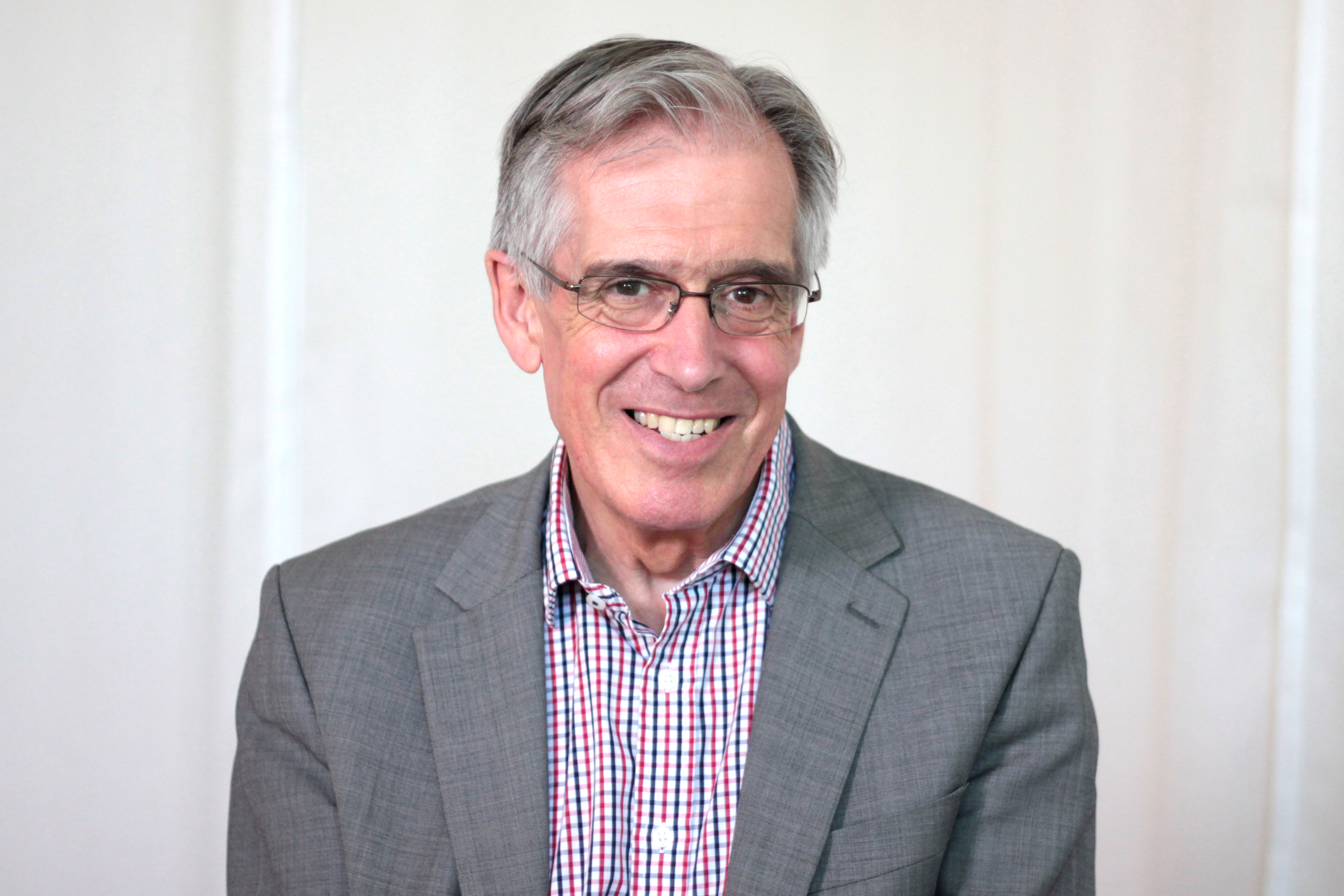 Profile image of Hugh Osgood.